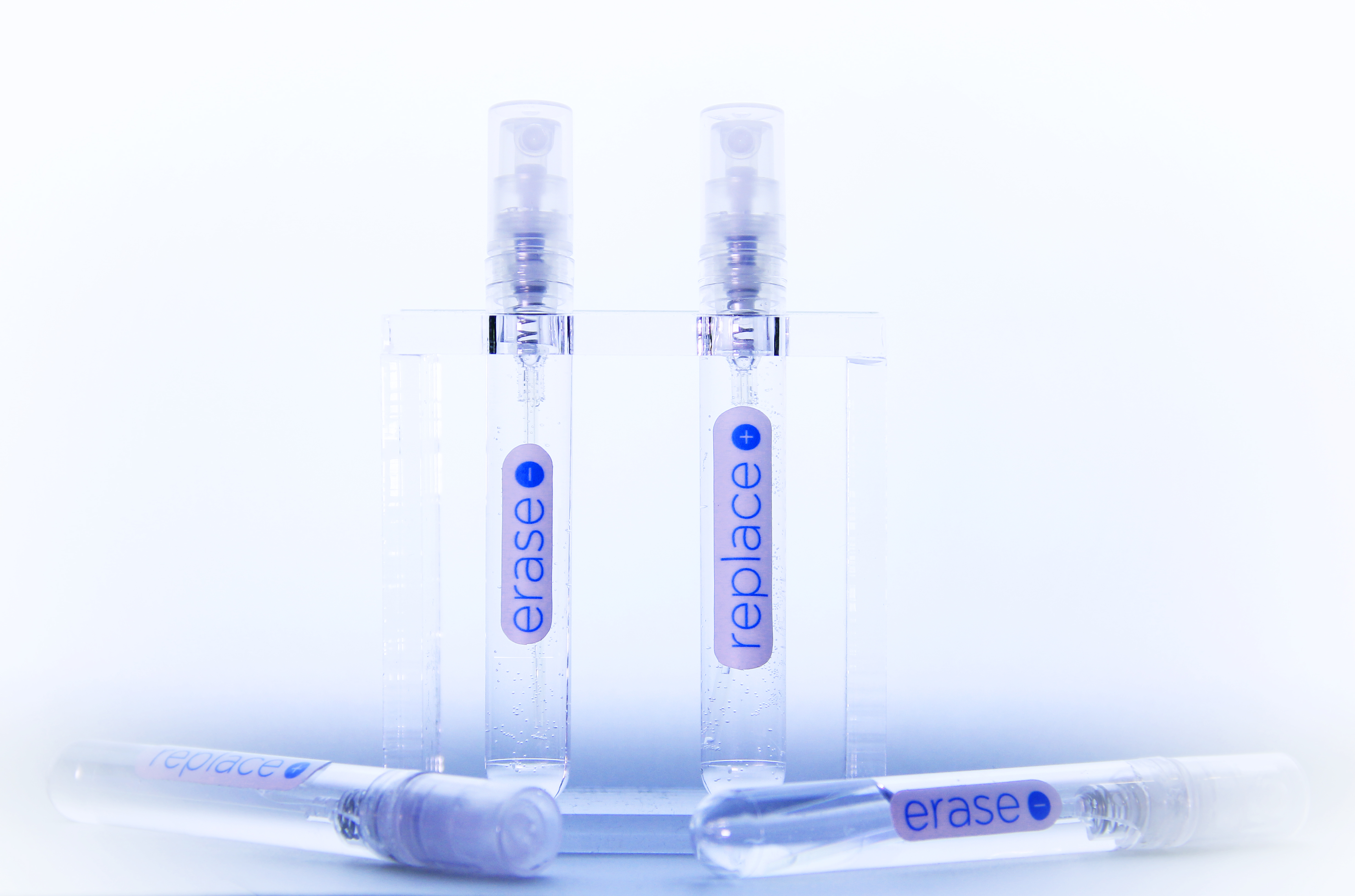 Product shot